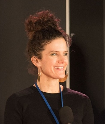 Heidi Quante talking on Art & Behaviour, Paris, France